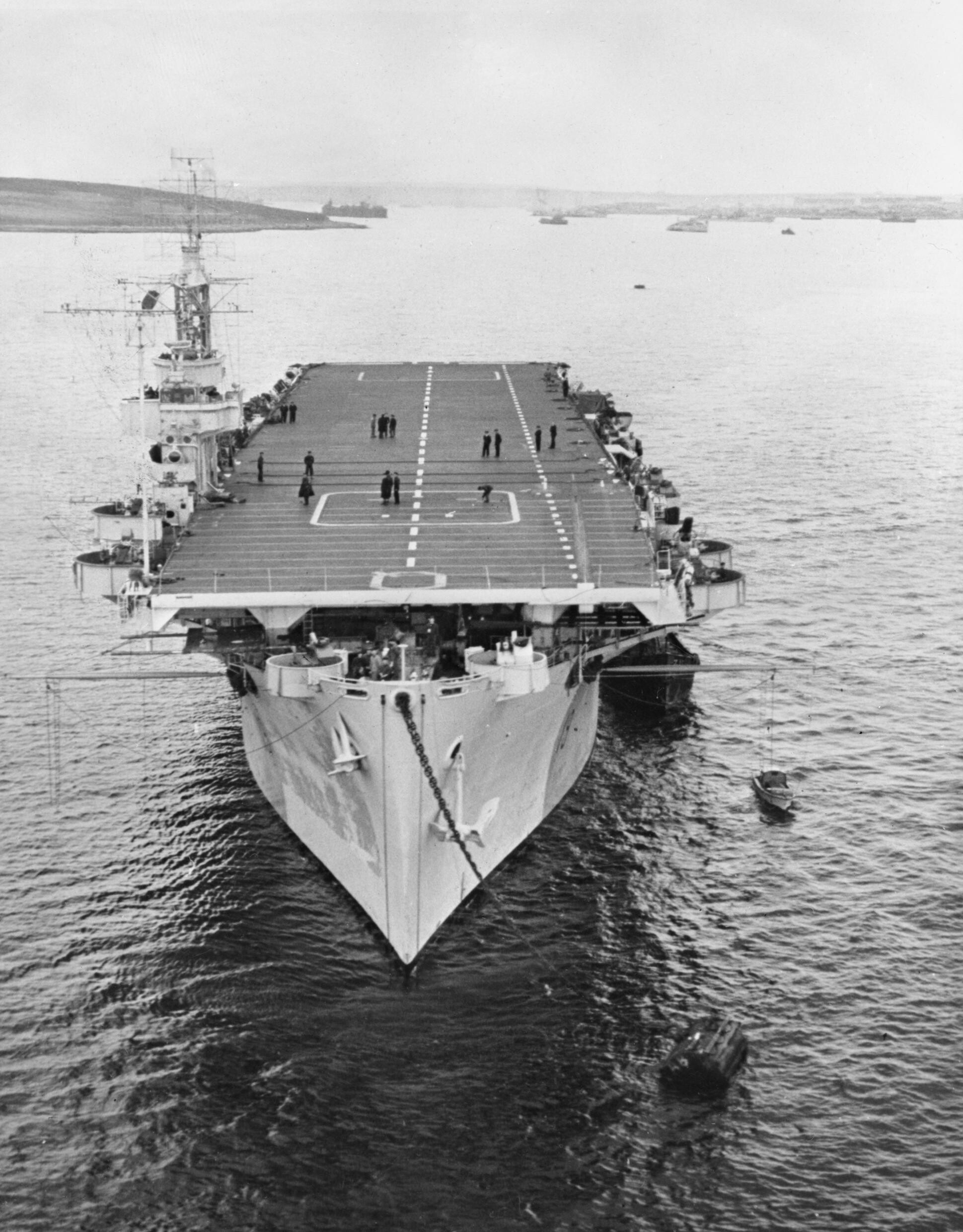 British Bogue/Ameer class escort aircraft carrier HMS QUEEN moored to a buoy at Scapa Flow.